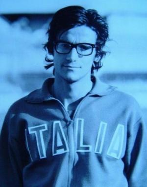 Luigi Benedetti in a shot in Italy in 1970s